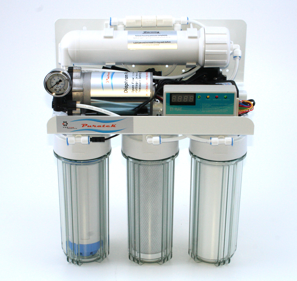 An RO/DI unit, used for water purification in aquariums.